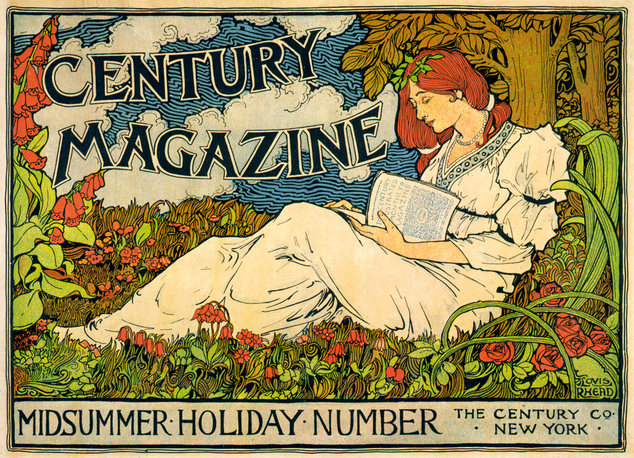 "Century Magazine, Midsummer Holiday Number". Promotional poster by Louis Rhead shows a woman seated under tree reading Century Illustrated Monthly Magazine.